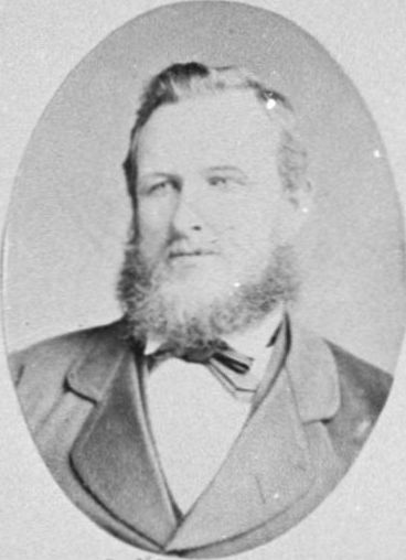 Portrait taken from montage depicting members of the 1882 House of Representatives.